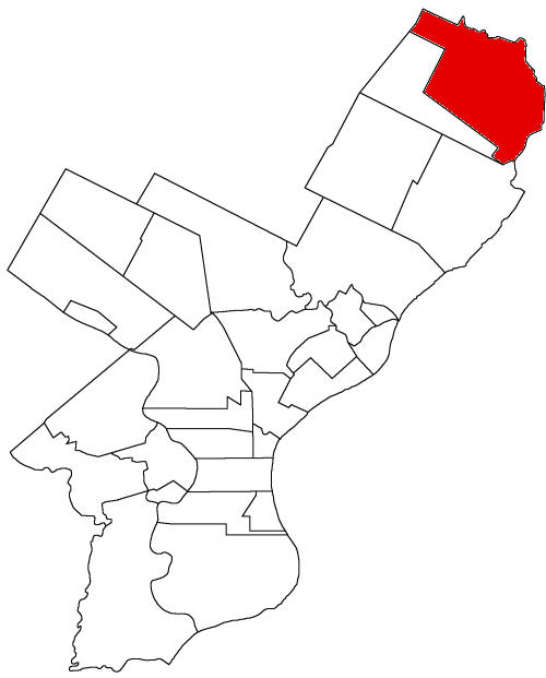 Map of Philadelphia County, Pennsylvania highlighting Byberry Township prior to the Act of Consolidation, 1854